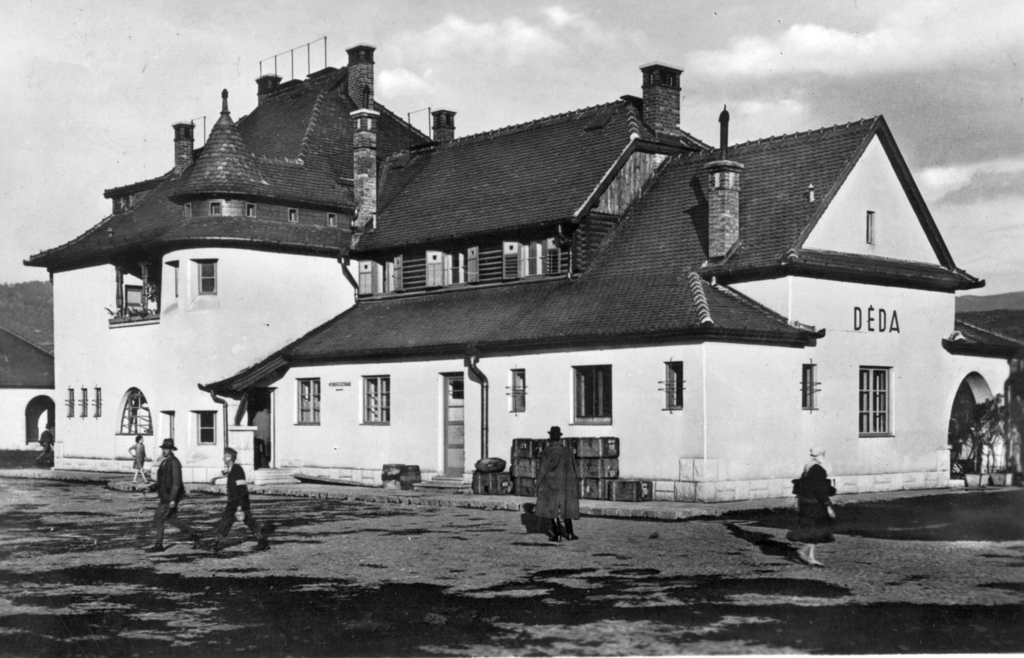 Deda train station, street side Location: Romania, Transylvania, Deda Tags: train station, place-name signs Title: vasútállomás.